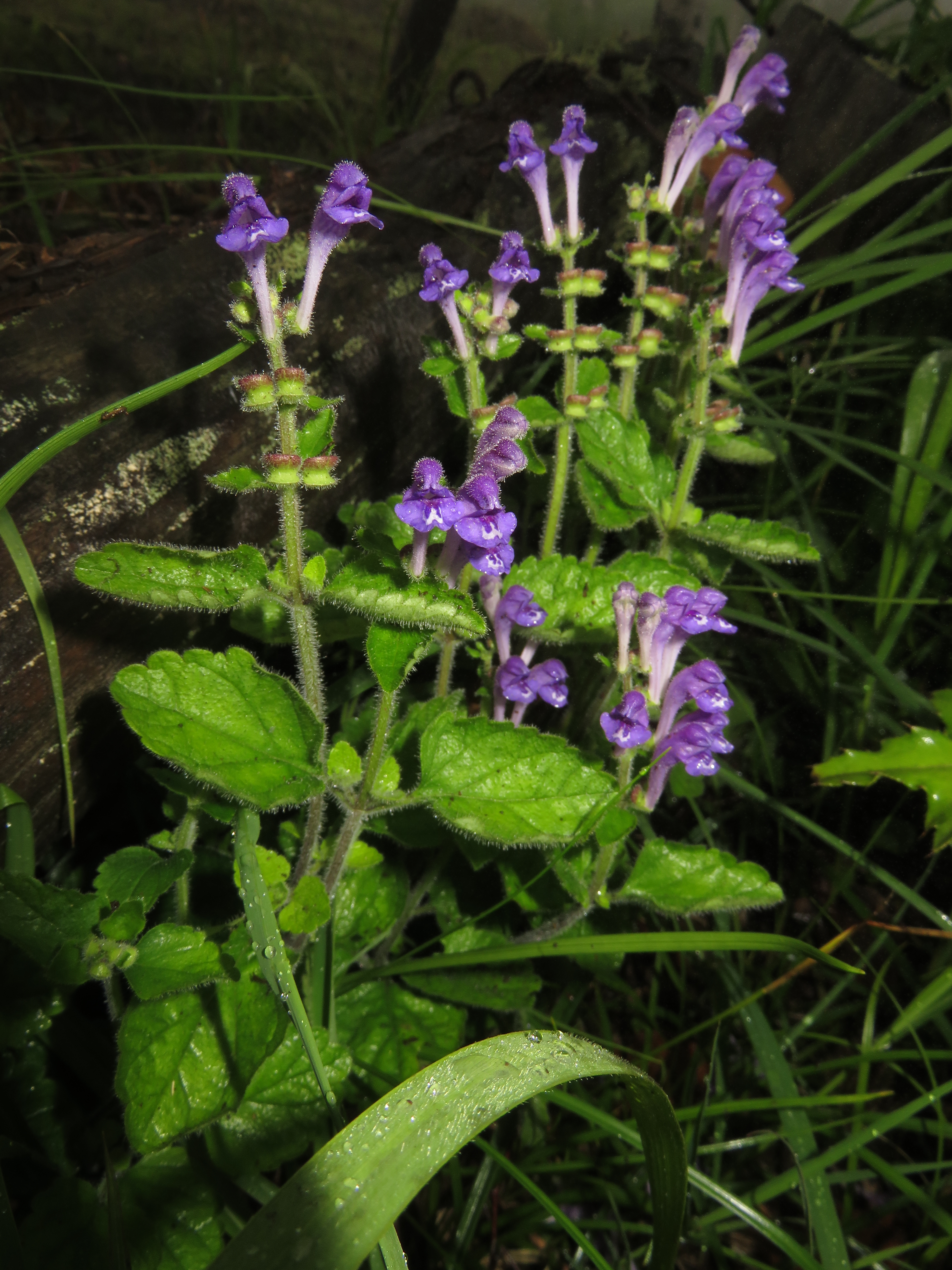 Scutellaria indica, Aizu area, Fukushima pref., Japan